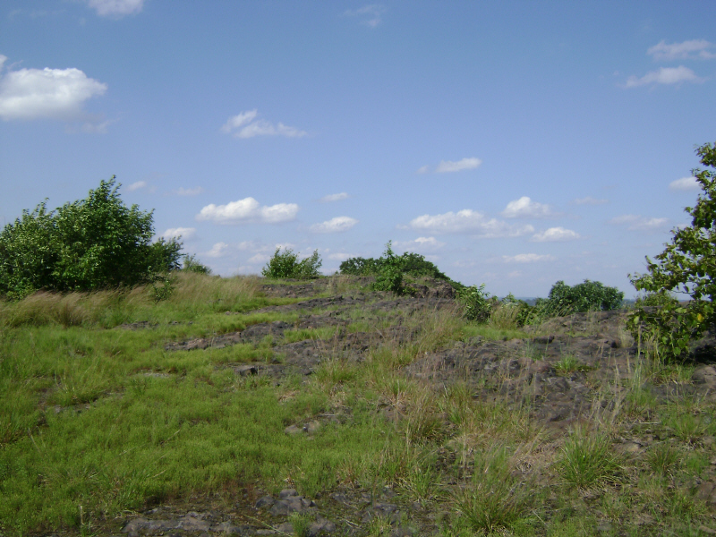 A trap rock glade straddles the ridgeline of Goffle Hill, part of First Watchung Mountain, along the border of Hawthorne and North Haledon in New Jersey.